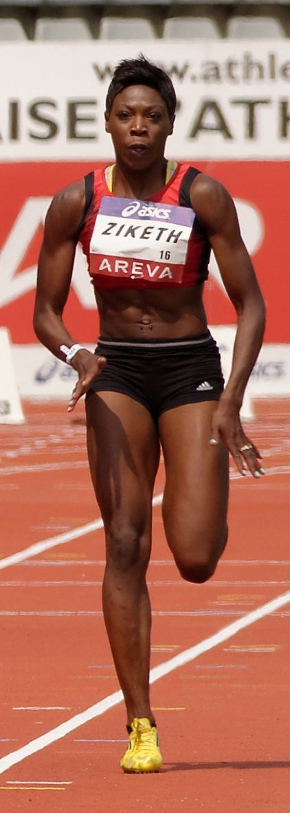 Céline Distel-Bonnet runs to win the second series of the women's 100-metre race in 11"31 during the French Athletics Championships 2013 at Stade Charléty in Paris, 13 July 2013.